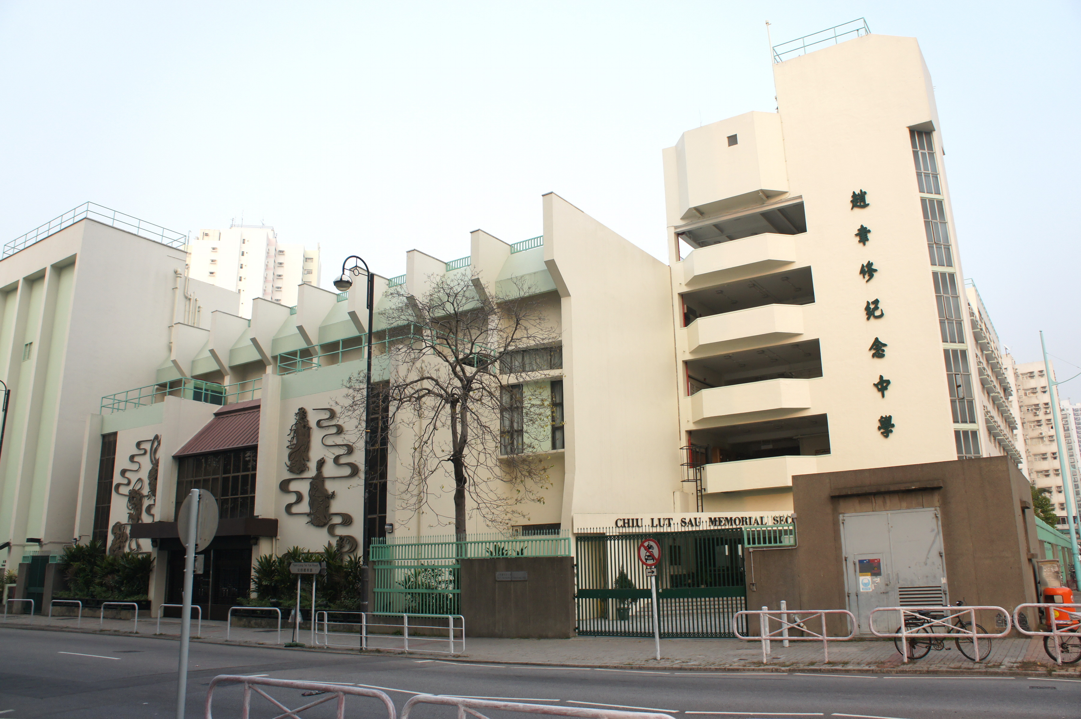 Chiu Lut Sau Memorial Secondary School, Yuen Long, New Territories, Hong Kong. Yuen Long Tai Yuk Road is at the front.